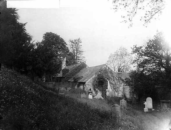 1 negative : glass, dry plate, b&w ; 16.5 x 21.5 cm.